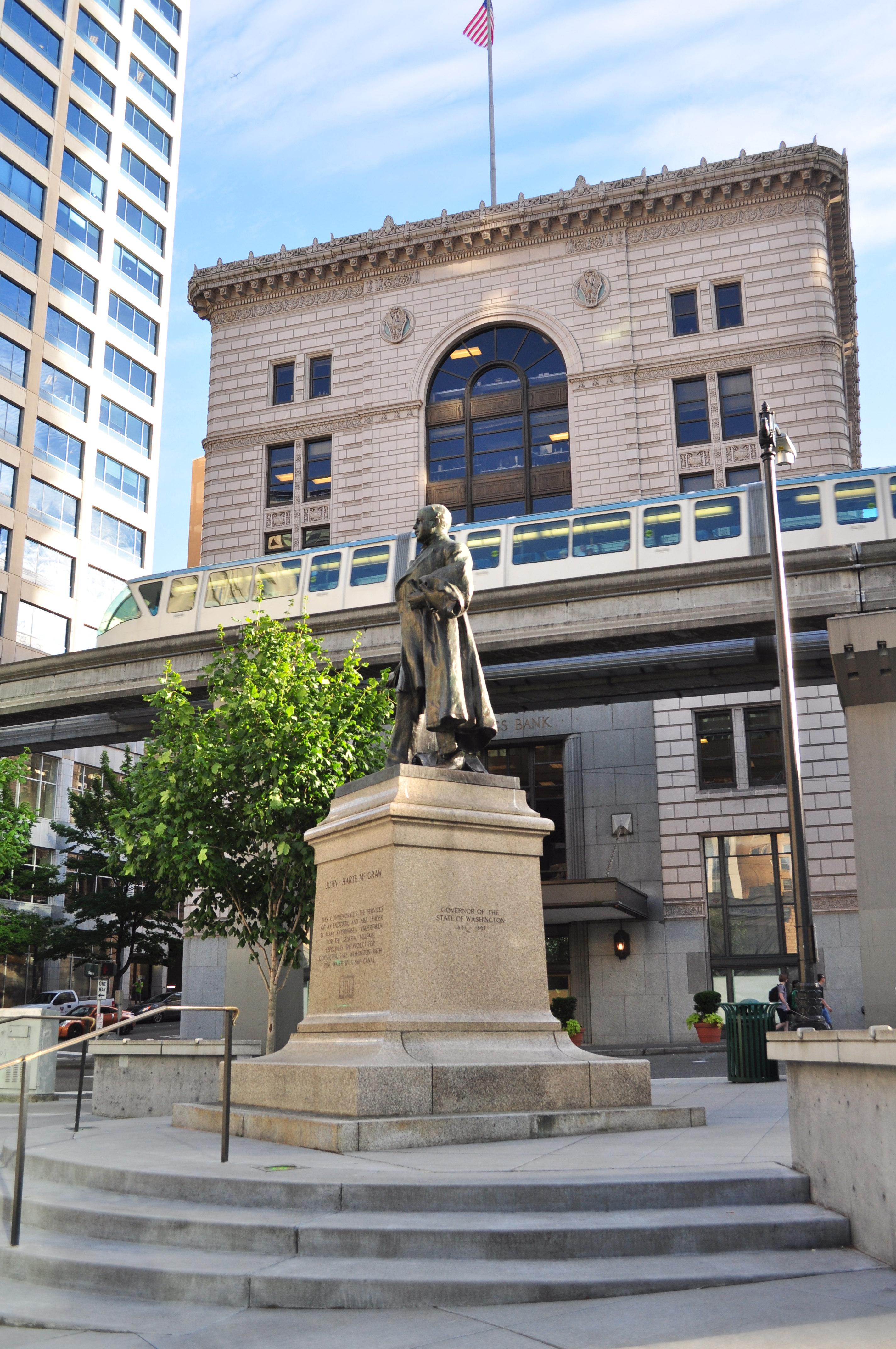 Statue of John Harte McGraw, McGraw Square, a small park between Fifth and Westlake Avenues just south of Stewart Street, Seattle, Washington. McGraw Square has status as a city landmark. In the background, the Seattle Monorail and the old (1916) Seattle Times Building, now Times Square building, a city landmark and on the National Register of Historic Places.